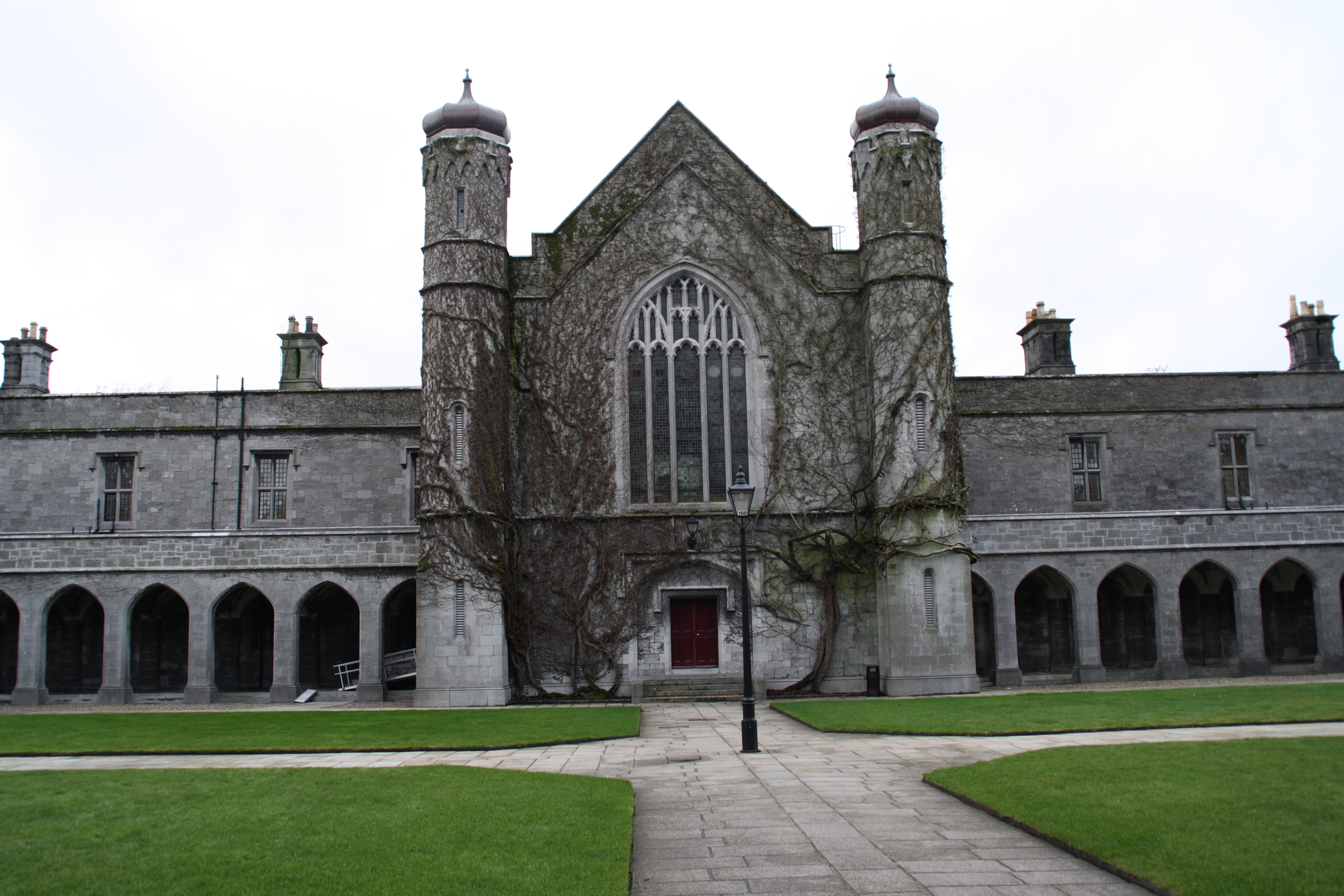 National University of Ireland, Galway.